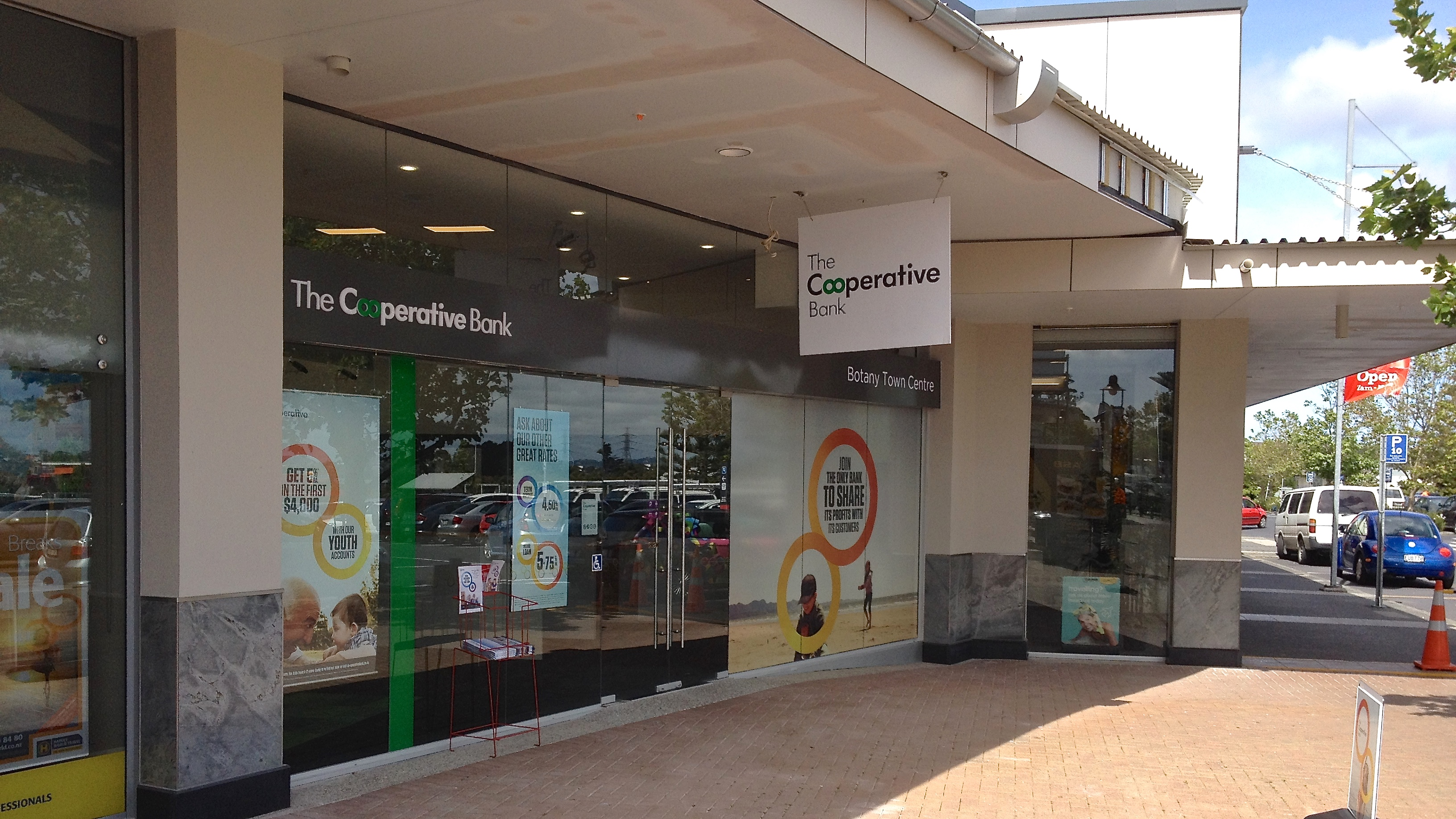 Front of the Co-operative bank branch in Botany town centre in Auckland